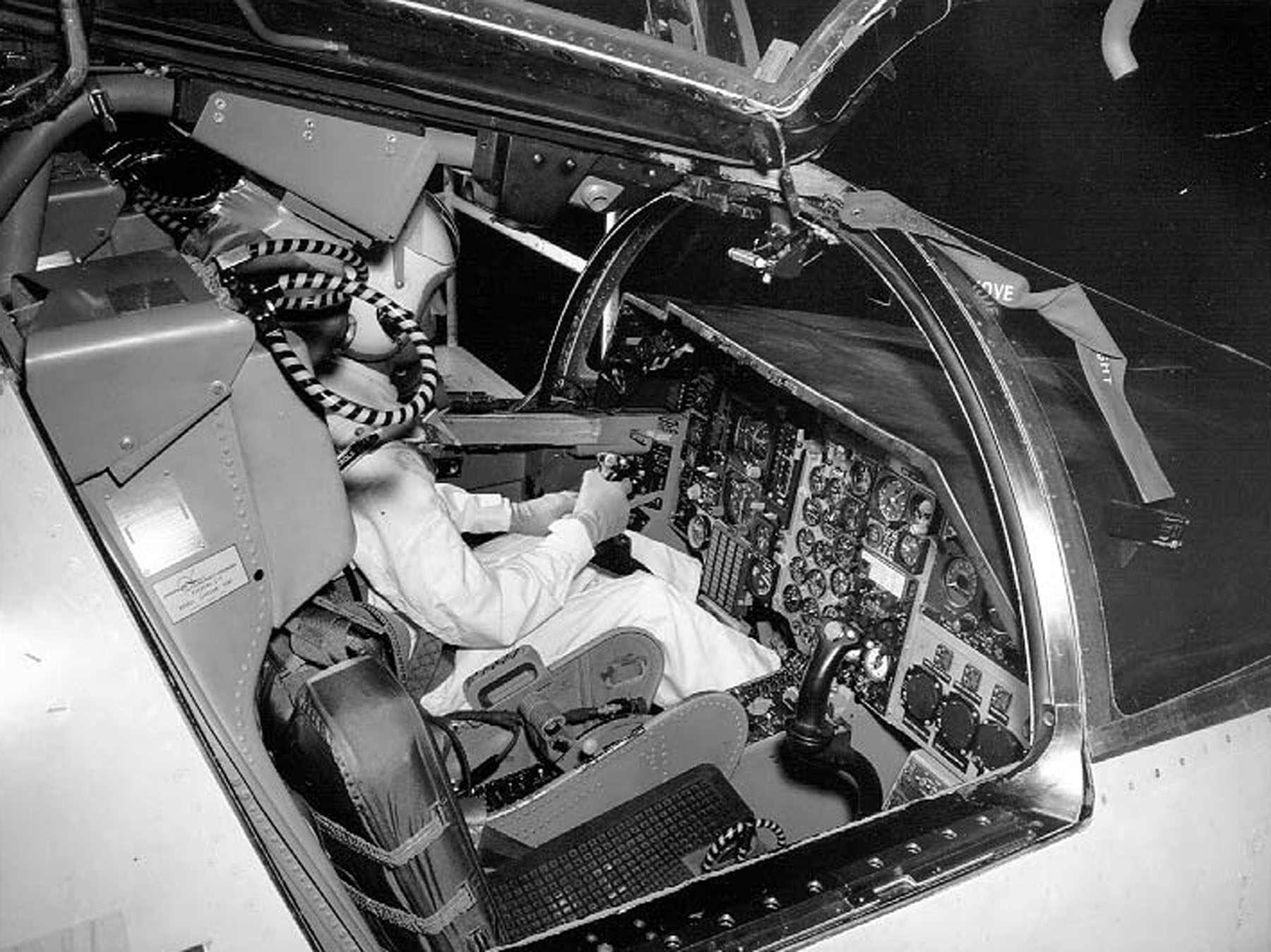 General Dynamics F-111A cockpit